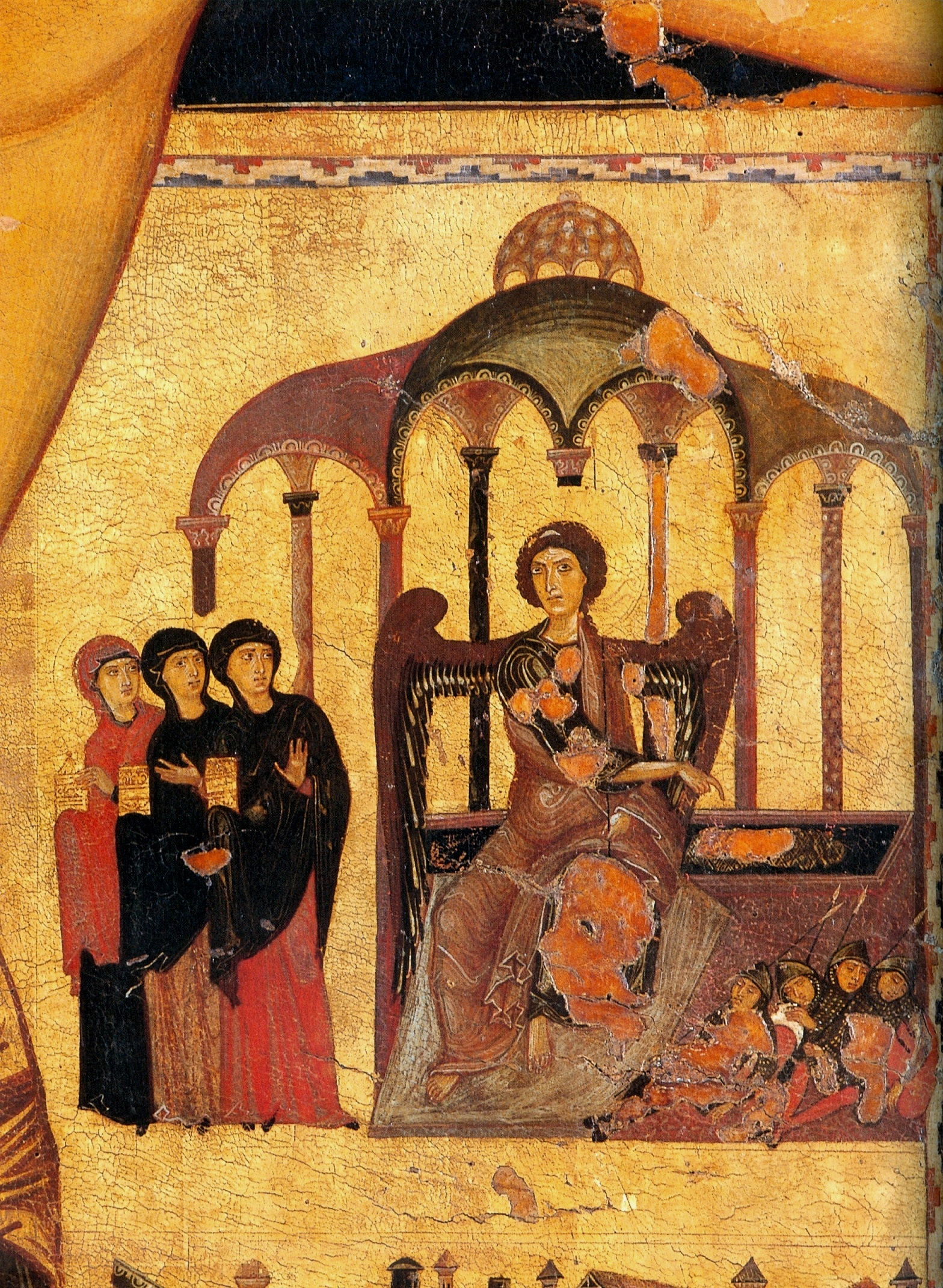 Painted cross. 1200–1210, 298 × 233 cm, detail. Pisa, National Museum of San Matteo.